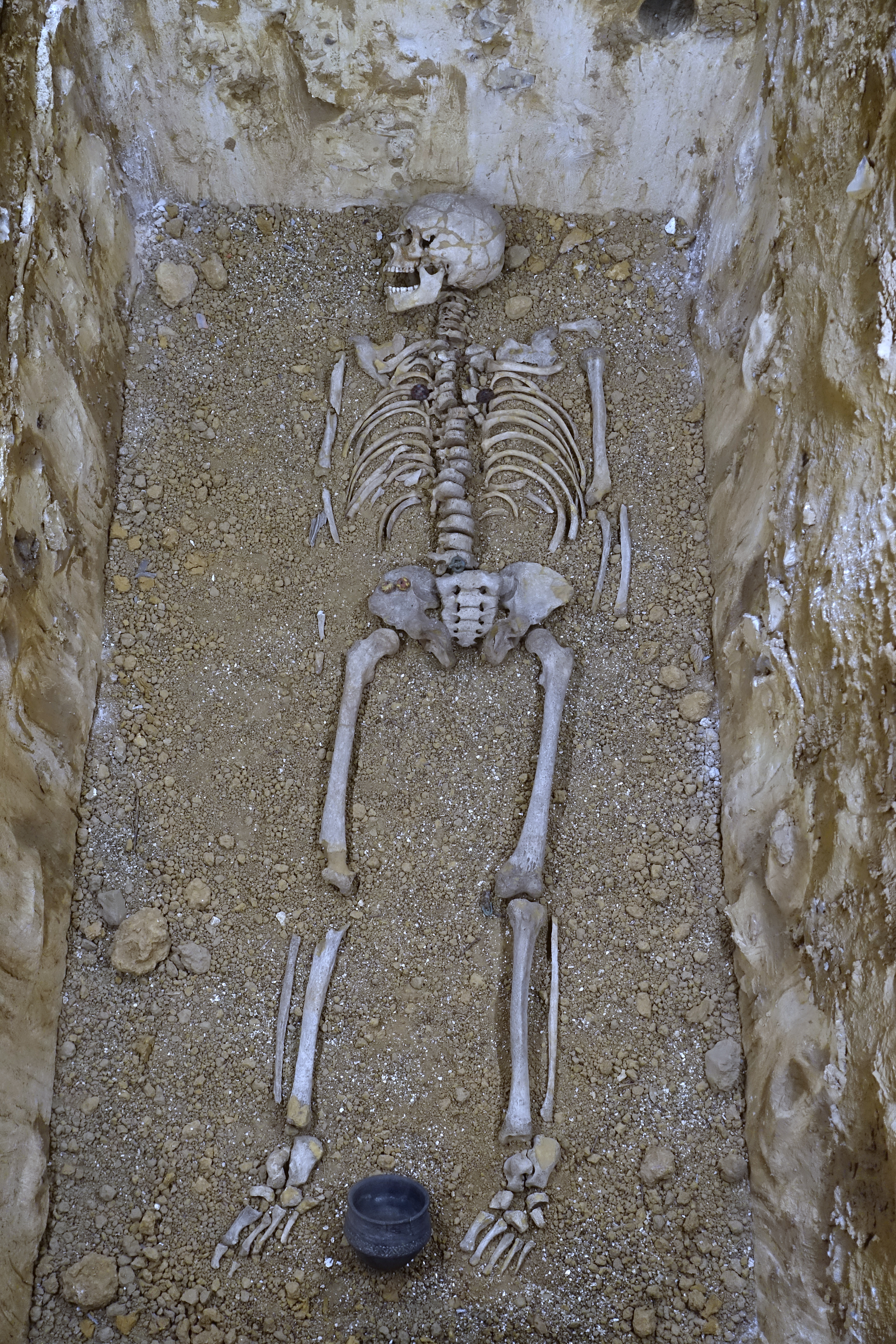 Exhibit in the Cinquantenaire Museum - Brussels, Belgium.